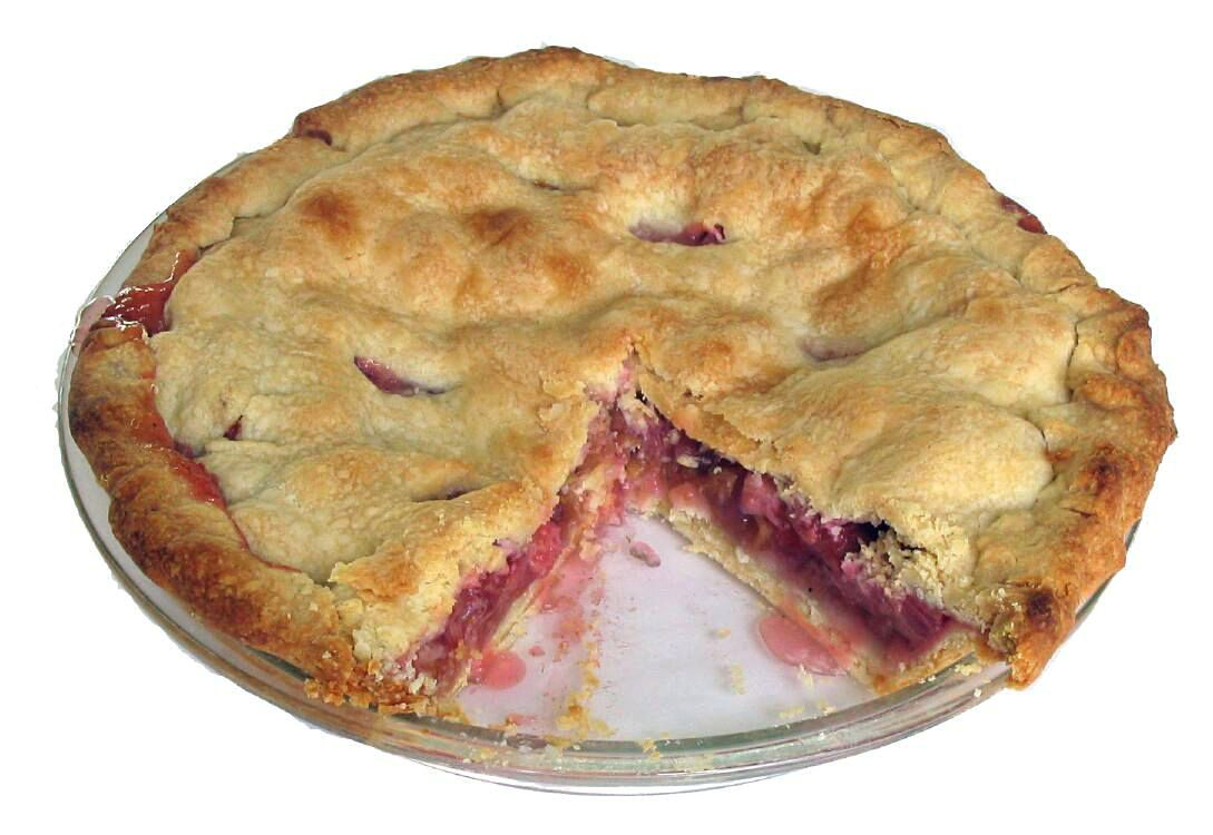 I took this photograph on 2 August 2005, using a Canon PowerShot A70. Also edited using Adobe Photoshop. Photograph available under GFDL license. You do not need my permission to reuse it, but you may nottttt claim that you took the photo yourself. Hayford Peirce 18:40, 8 Oct 2004 (UTC)